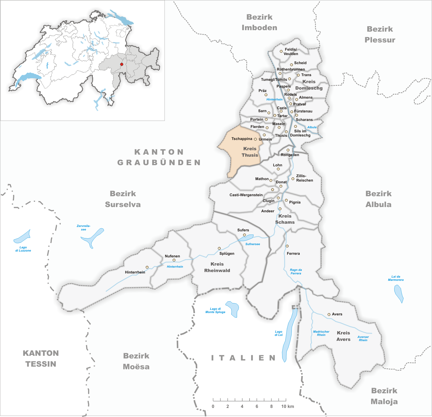 Municipality Tschappina